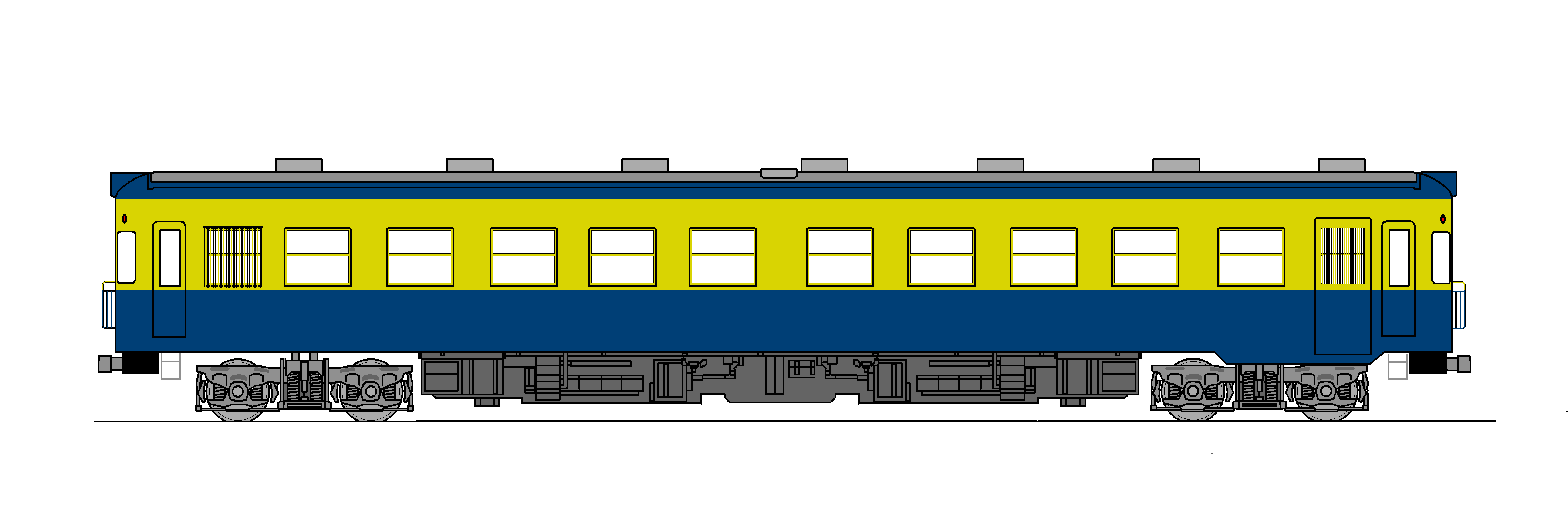 The side view of the DMU series 5100 of Odakyu Electric Railway.